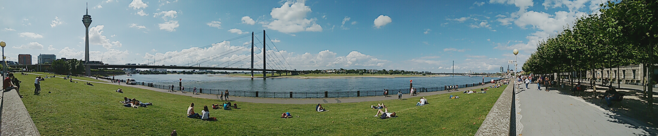 Rheinpark bilk, Düsseldorf